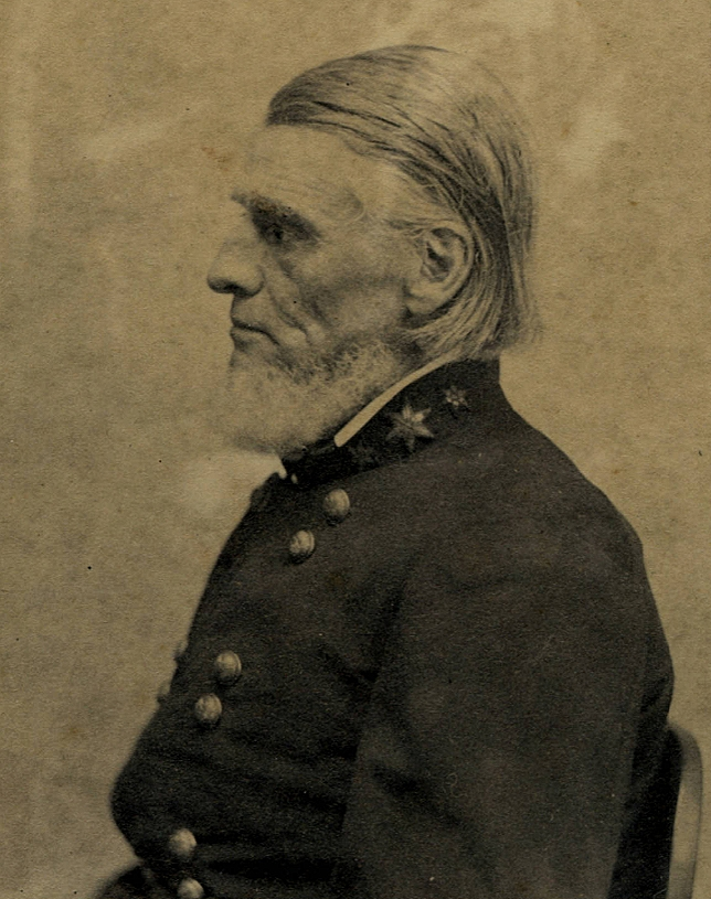 Portrait of Gen. Henry Alexander Wise, University of South Carolina Libraries